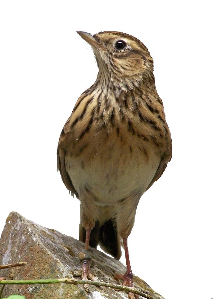 Skylark, Alauda arvensis (LINNAEUS, 1758)